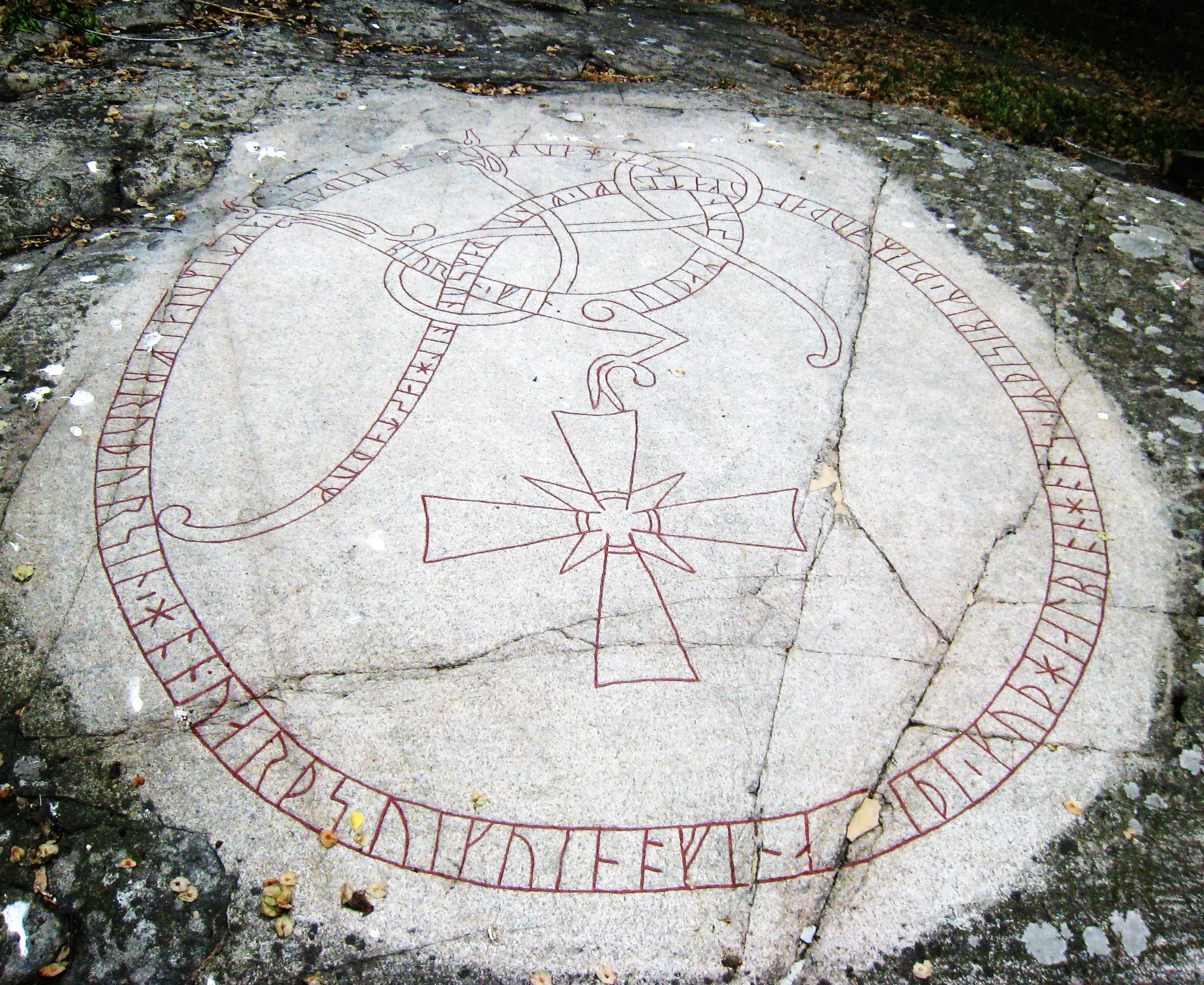 Rock carving at Nora, Danderyd, Sweden, runic inscription U 130